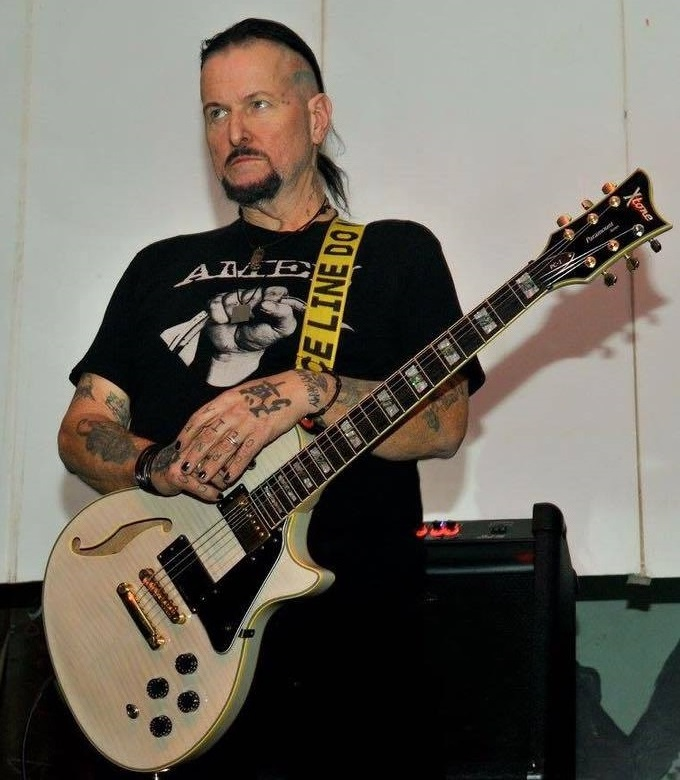 San Francisco @ SubMission, with the GDQ band in 2015.